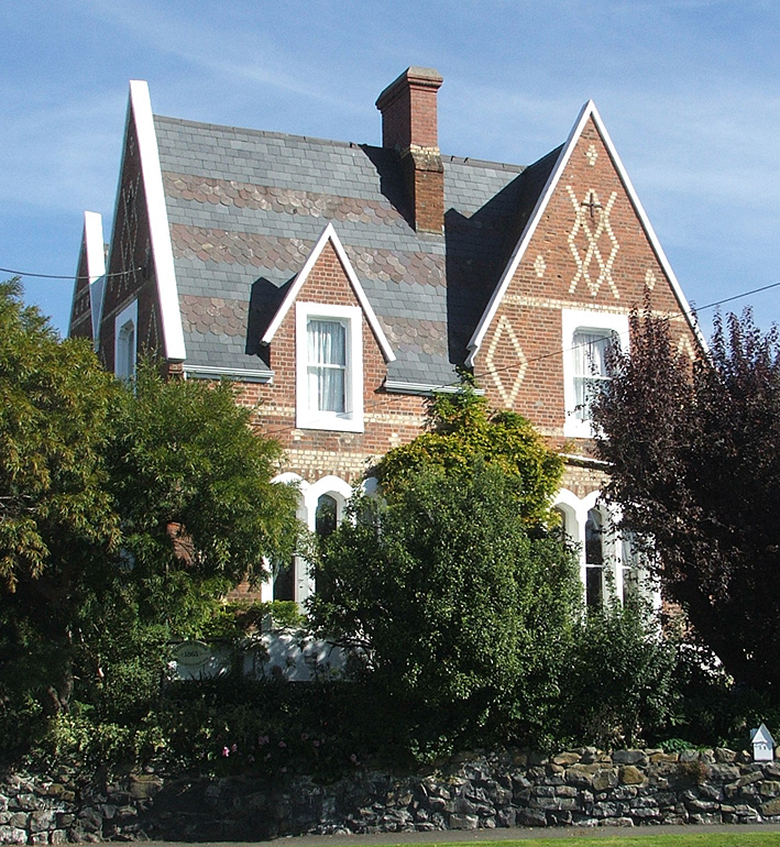 Lisburn House, Caversham, New Zealand. Photograph by James Dignan (User: Grutness), April 3rd, 2009. NZHPT Historic Place - Category I, Register Number 2192.